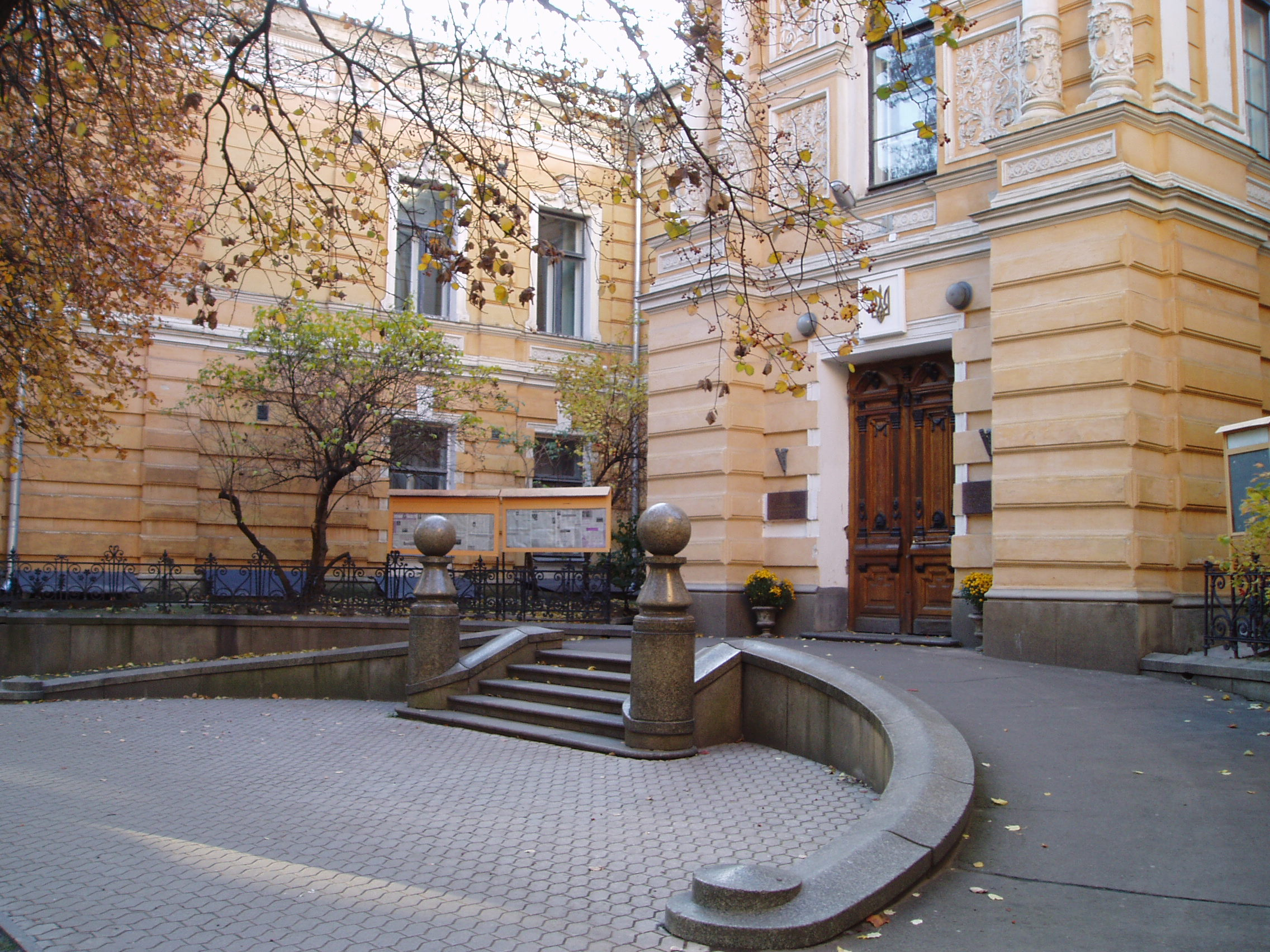 The portal of the Liberman manor